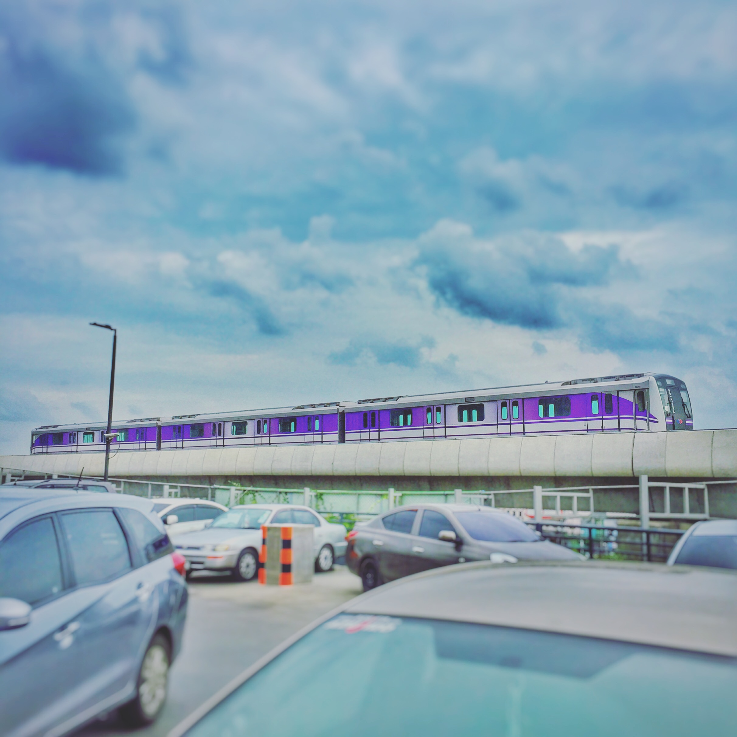 MRT purple line from Central Westgate parking building